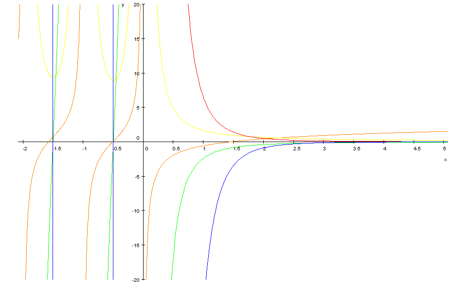 Polygamma function